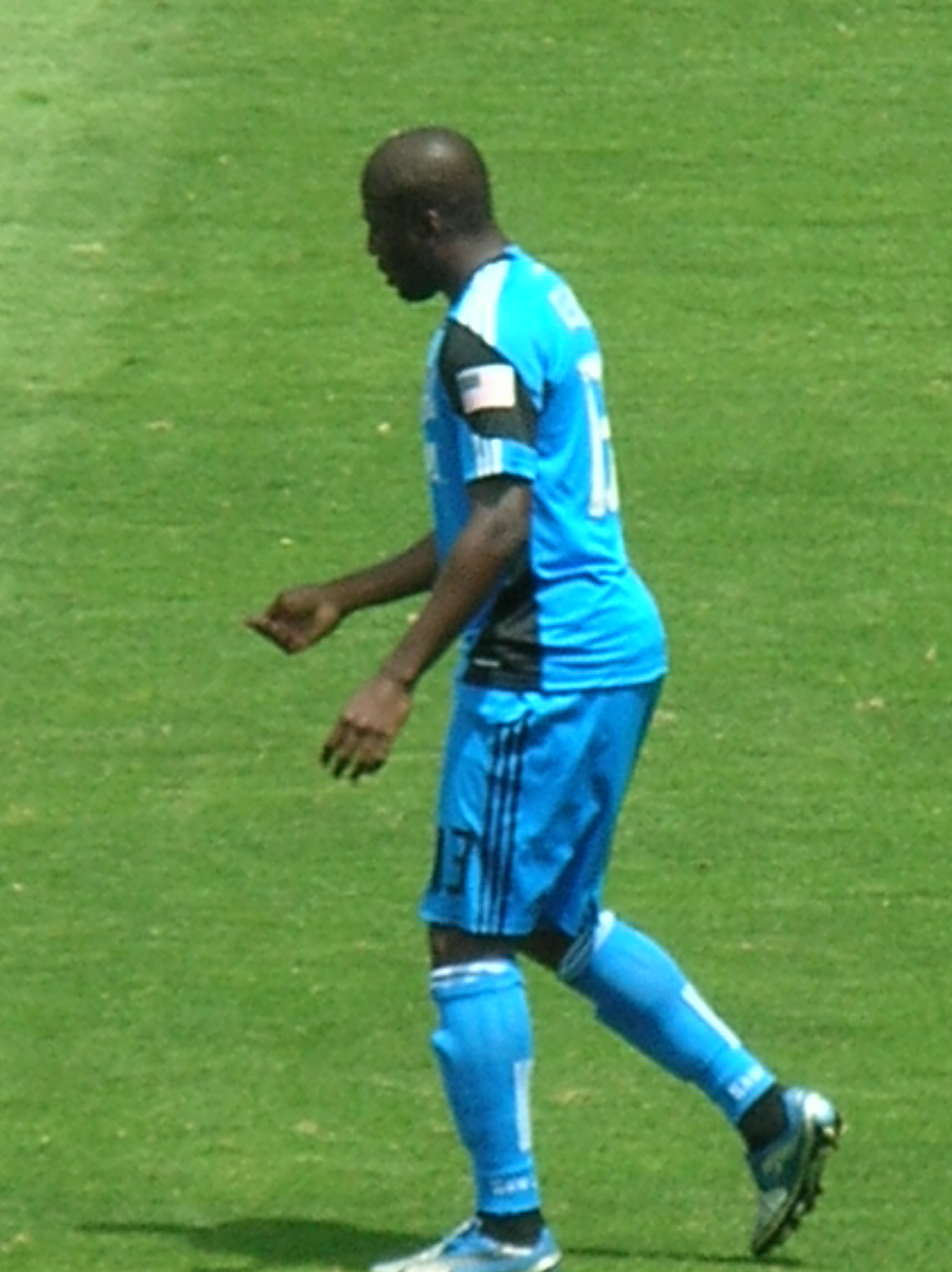 San Jose Earthquakes forward Cornell Glen at a home game against the LA Galaxy. The Earthquakes won 1-0